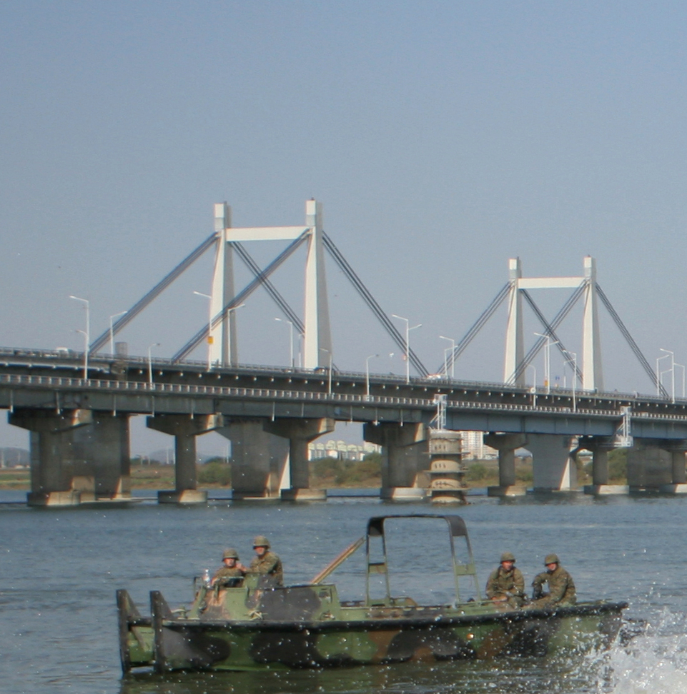 051101-M-5426L-003.HAENG JU BRIDGE TRAINING SITE, Republic of Korea An interior bay blooms open after being launched from a Logistics Vehicle System on the Han River Nov. 1. Service members from 9th Engineer Support Battalion, 3d Marine Logistics Group combined efforts to assemble a portable, pontoon bridge over the Han River at the Haeng Ju Bridge Training Site Oct. 27 through Nov. 2. The 78 Marines and sailors constructed the Improved Ribbon Bridge set alongside the Republic of Korea Army's 1175th River Crossing Group as part of Operation Hwang So-06. Operation Hwang So-06 is a combined training exercise held in the ROK, designed to improve interoperability and strengthen national relations as well as prepare 9th ESB for its upcoming deployment in support of Operation Iraqi Freedom. (Official U.S. Marine Corps photo by Lance Cpl. Cathryn Lindsay)(released).